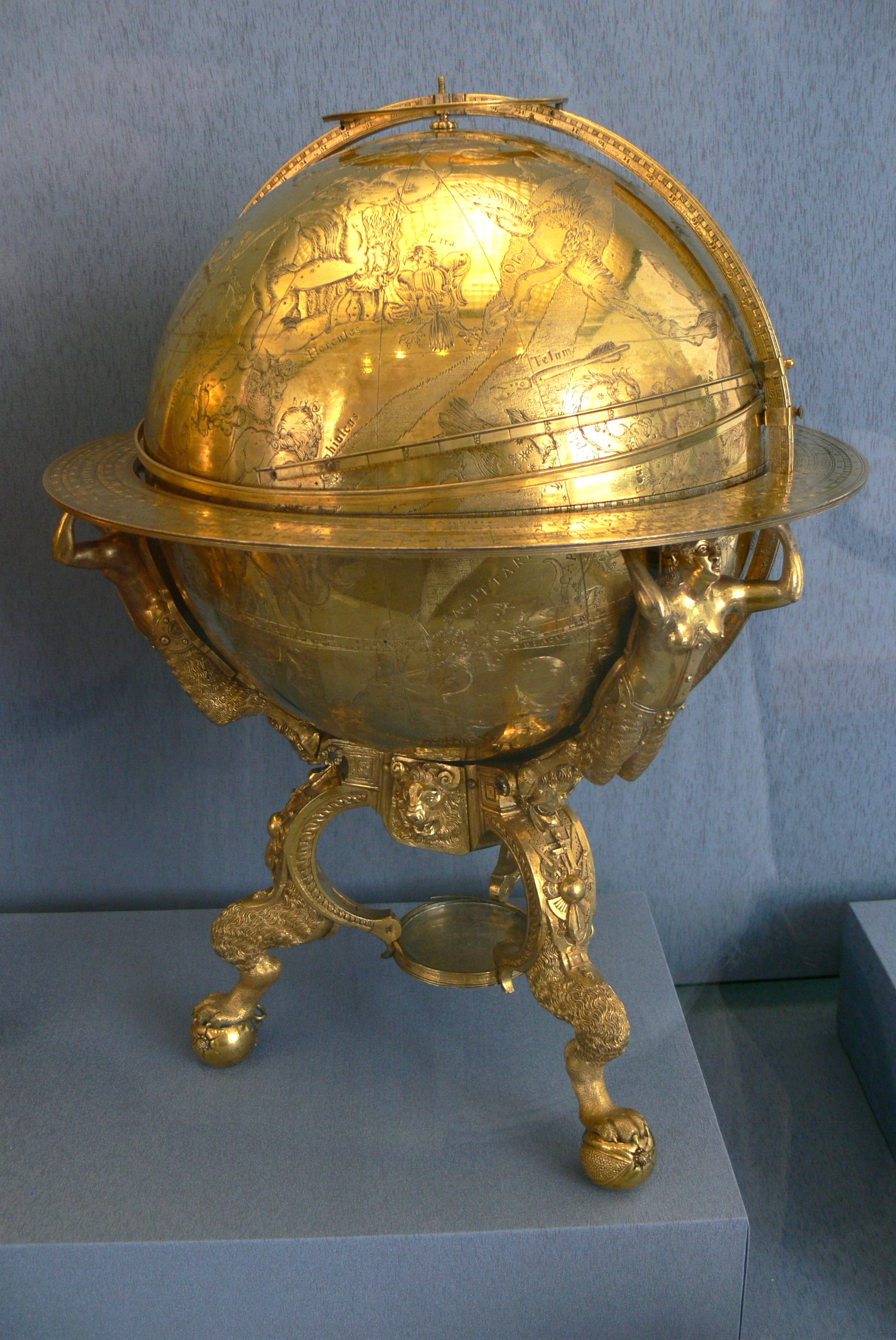 German National Museum ( Nuremberg / Germany ). Celestial globe, made by Johannes Praetorius ( 1566 ).